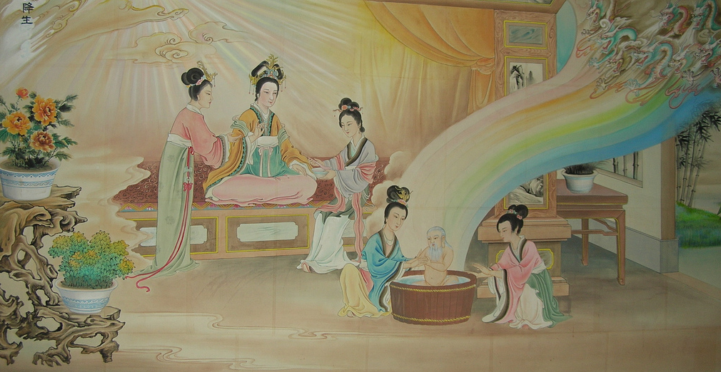 Detail of a wall painting depicting Laozi as a baby. Laozi is considered to be the founder and that who revealed Taoism. Gray Goat Temple, Chengdu, Sichuan, China.